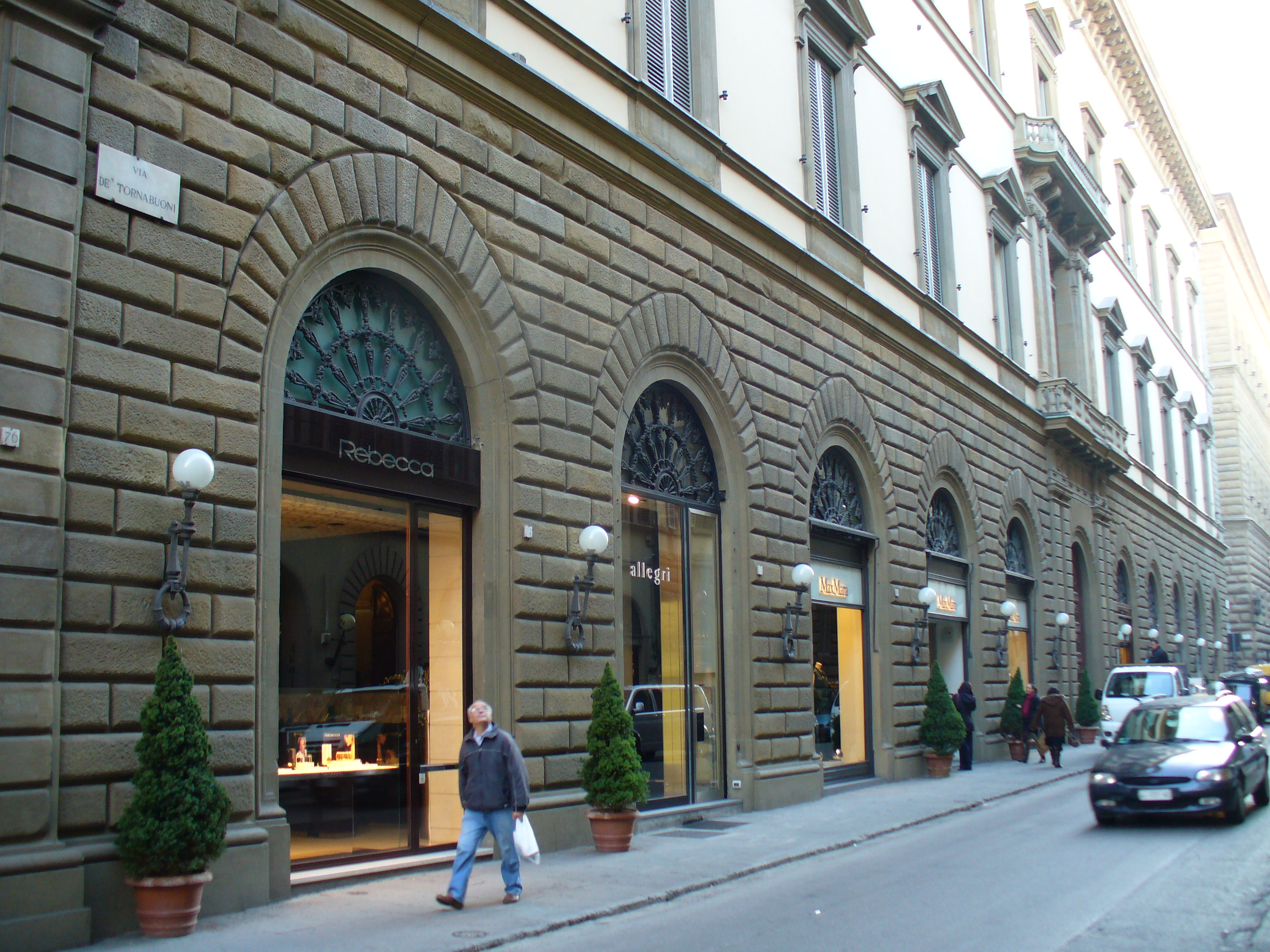 Via de' Tornabuoni